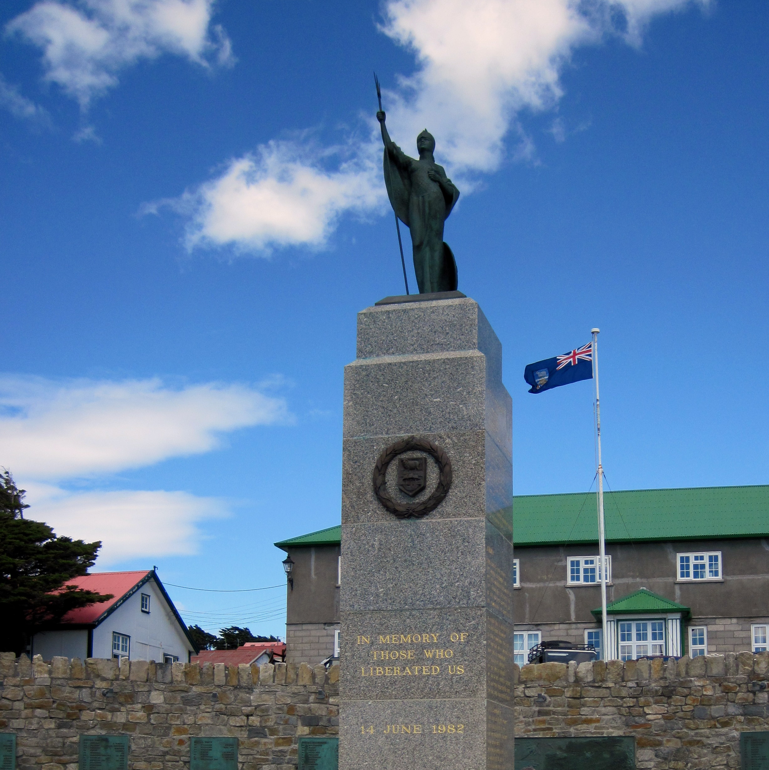 Falklands War Memorial on Ross Road in Stanley, with government buildings on Thatcher Drive in the background